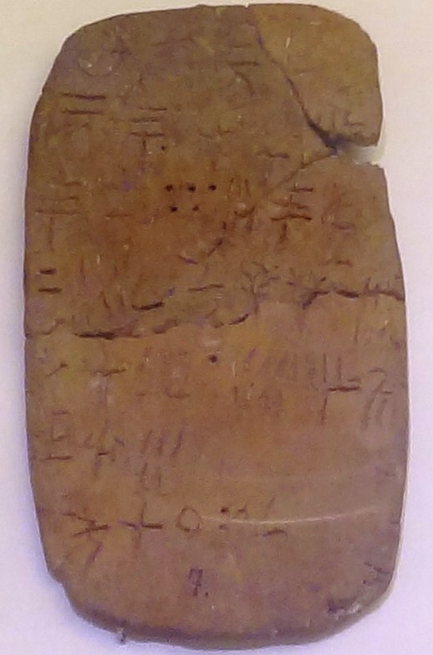 Linear A inscription on a clay tablet from Hagia Triada, Crete (15th century BC)